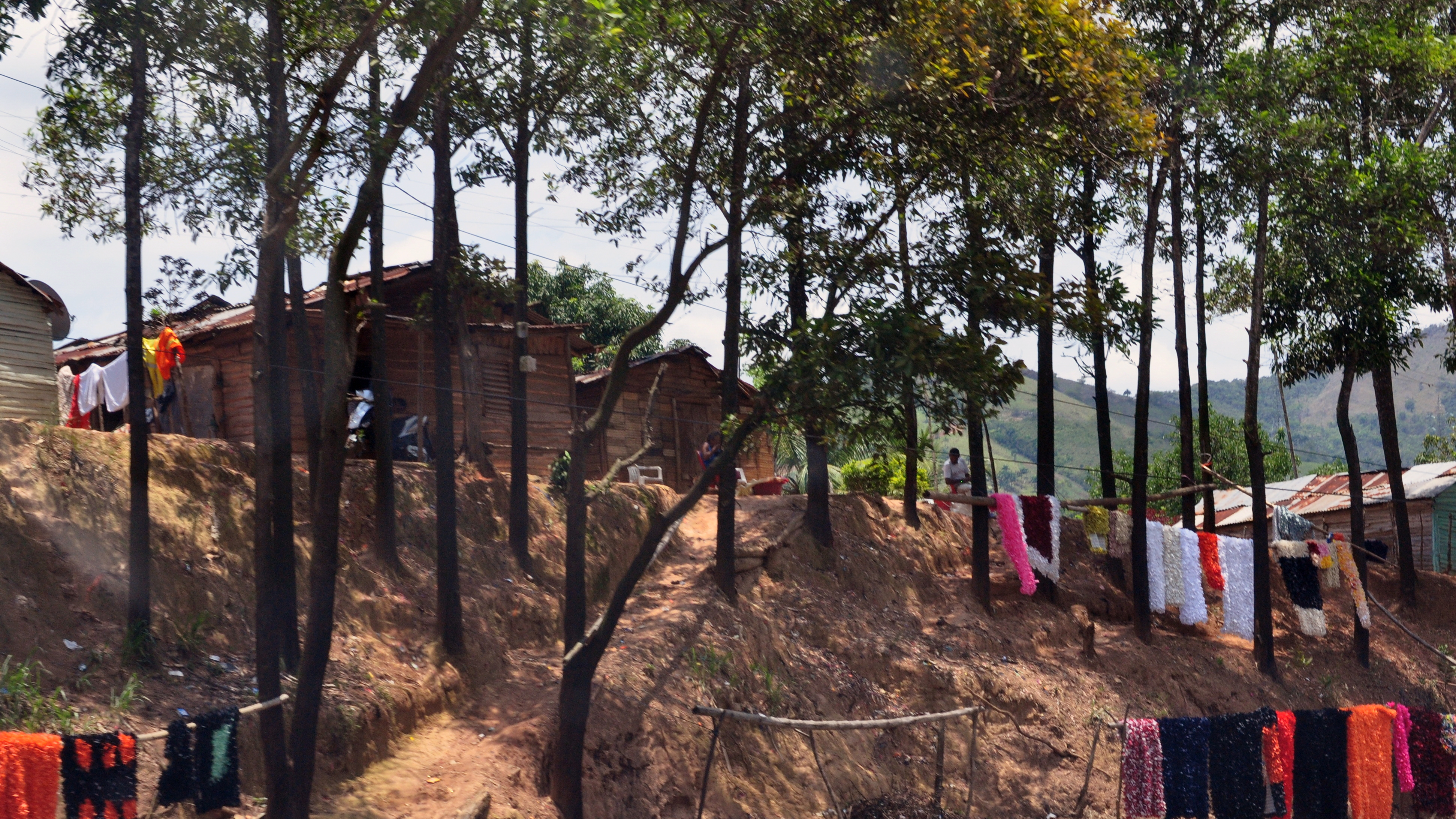 Decorative rugs, handmade of old rice bags with plastic strips. Piedra Blanca. Доминиканская Республика